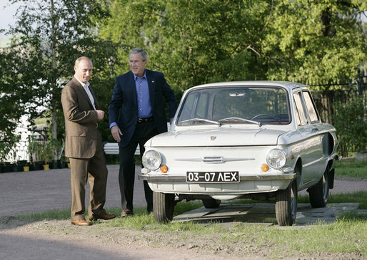 Vladimir Putin shows his first car, a Zaporozhets, to George W. Bush.